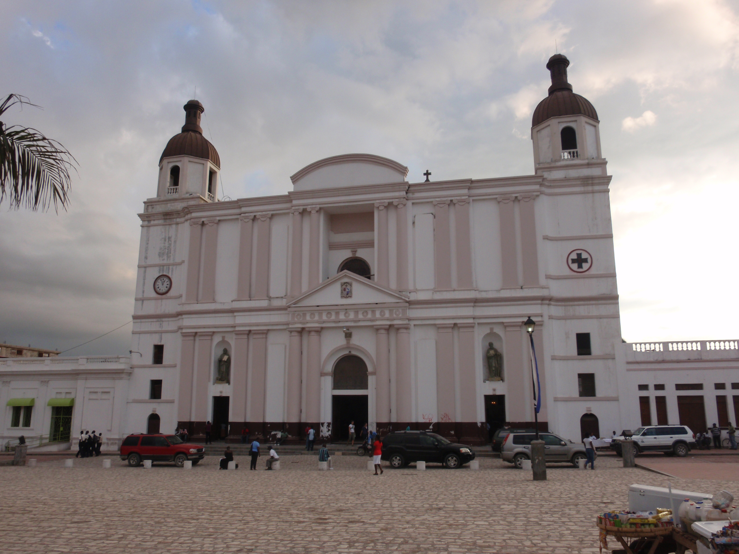 Cathedral of Cap Haitien, november 2012